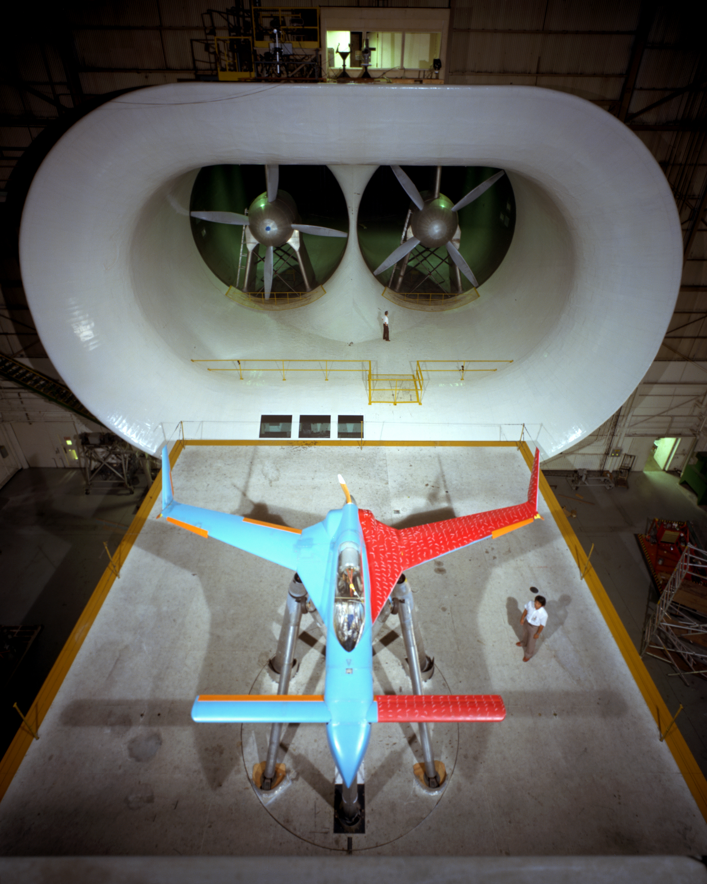 The Rutan Model 33 VariEze was built by the Model and Composites Section of Langley Research Center and then tested in the 30 x 60 Full Scale Tunnel. The craft was not built for flight, but did have an electric motor installed to drive the propeller as part of its aerodynamics study in the Tunnel.